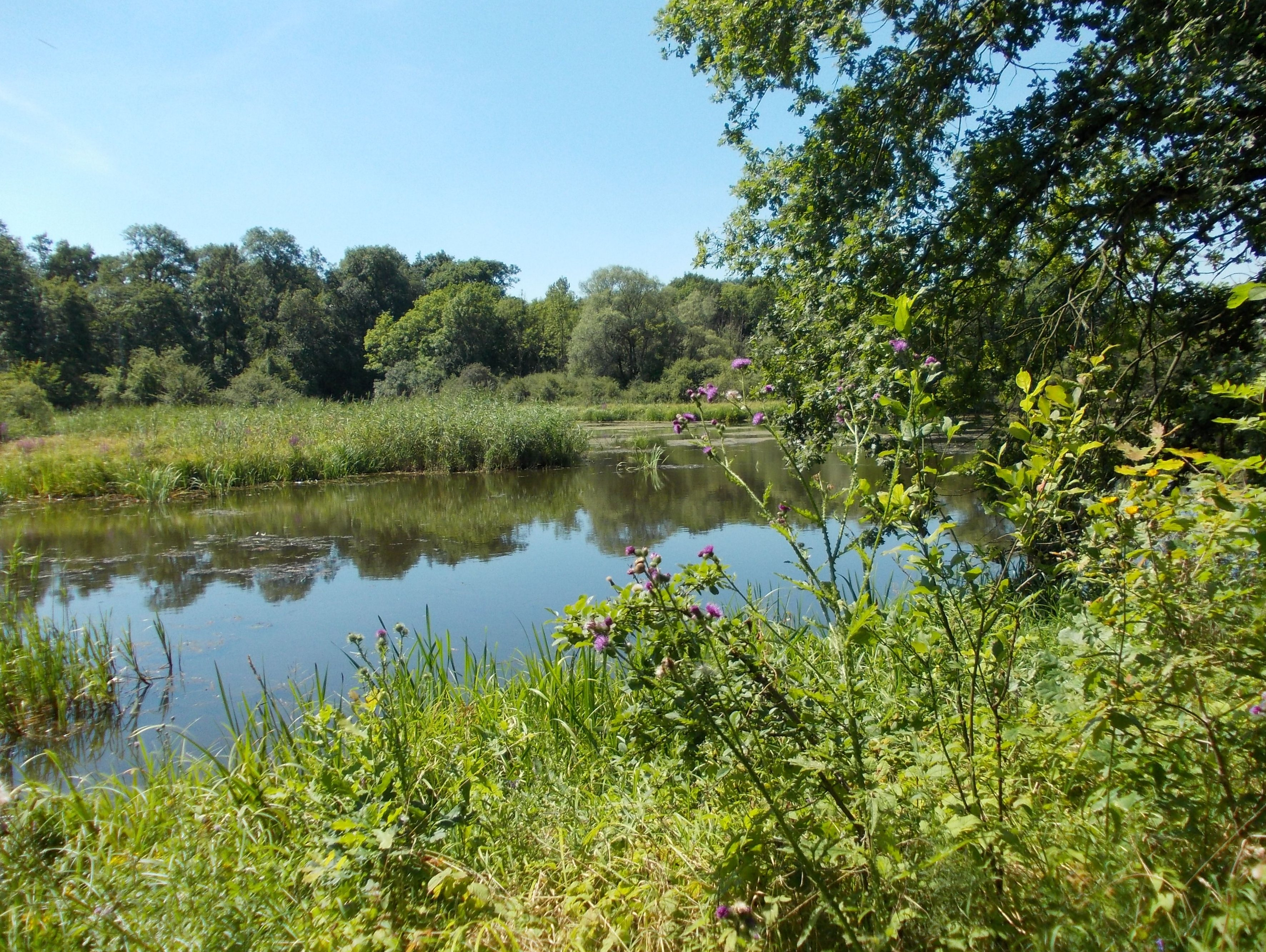 In the eastern part of the "Papitz Puddles", former clay-pits near Schkeuditz (Nordsachsen district, Saxony), now a nature reserve